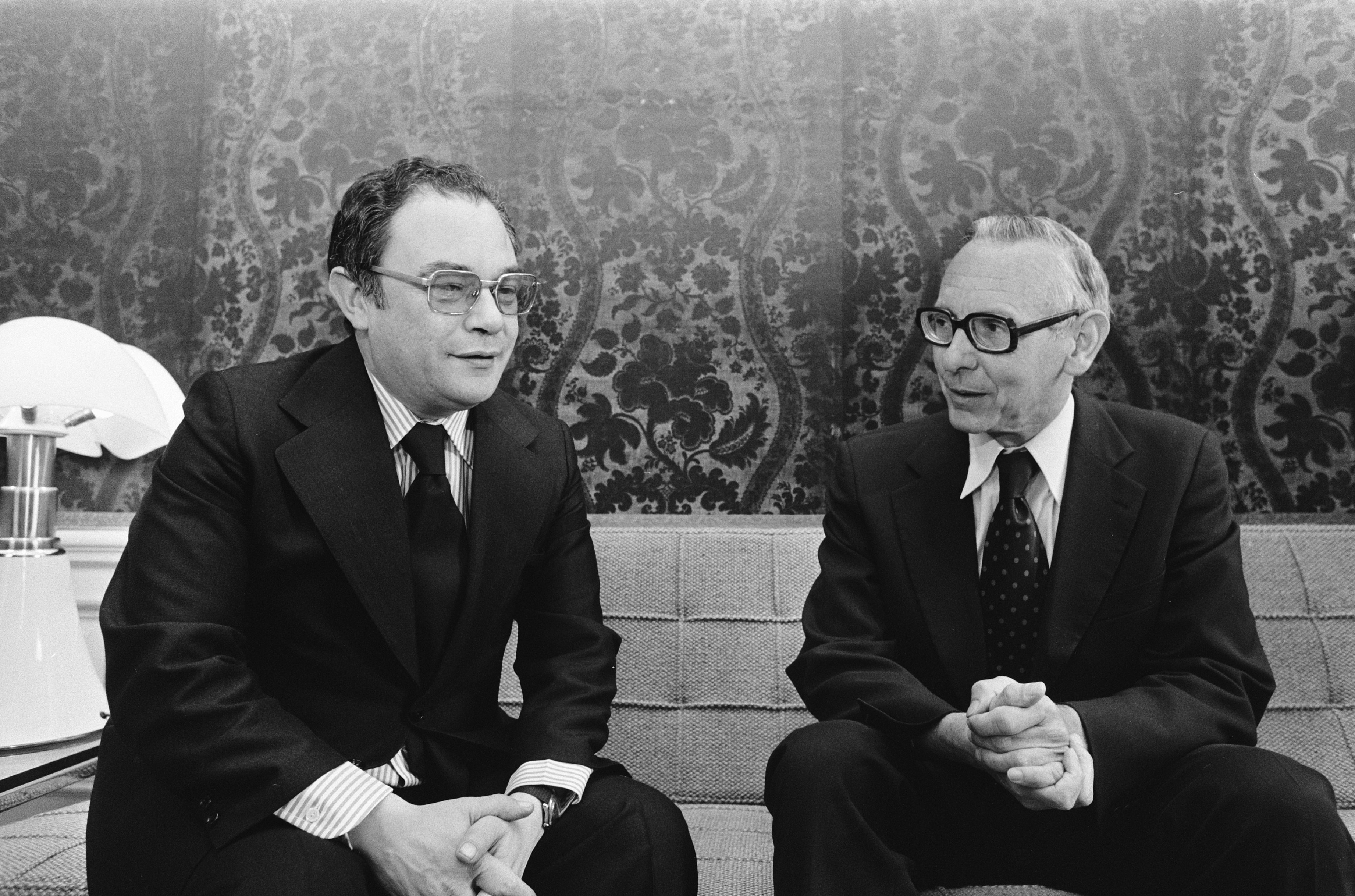 Ernesto de Melo Antunes and Max van der Stoel in May 1975